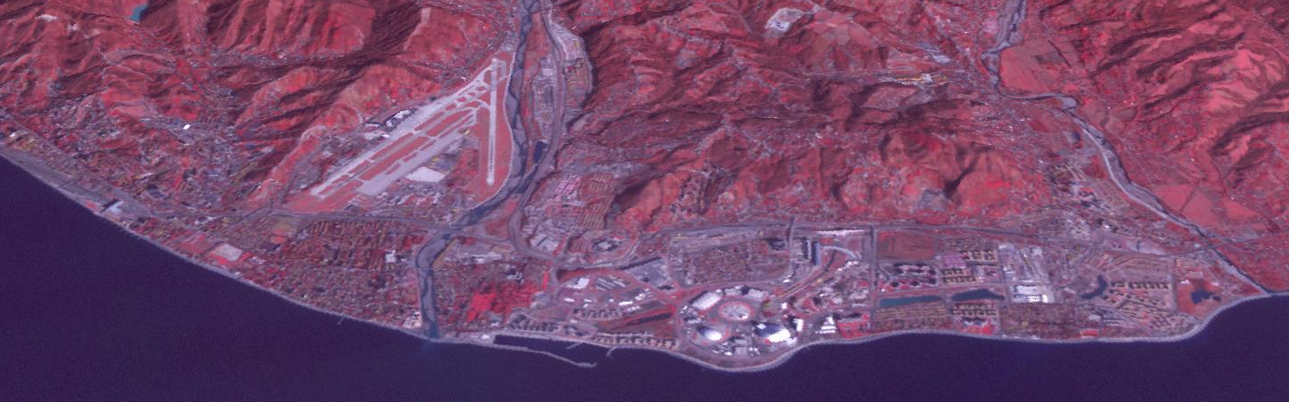 Adler, part of Sochi in south Russia. Russia Winter Olympic Sites (Coastal Cluster) in below center, near the Black Sea. International airport up left. Thermal, false-colour image.